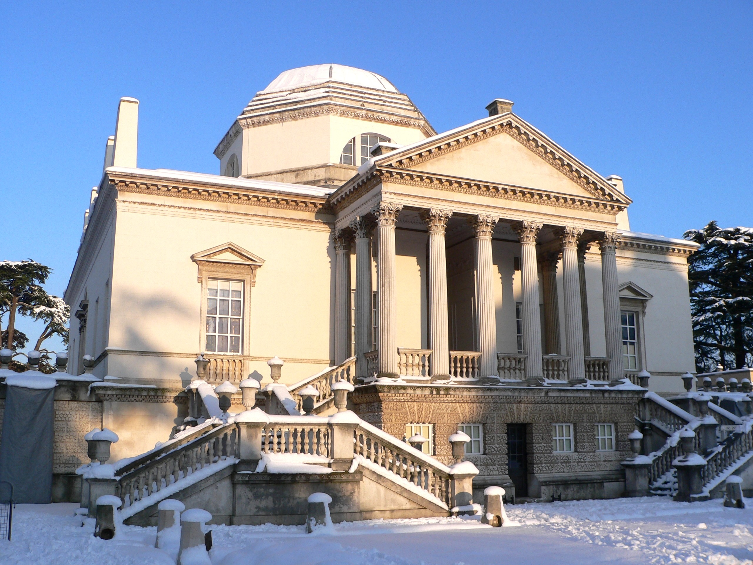 View for the prostyle, systyle, hexastyle portico of Chiswick Villa from the forecourt